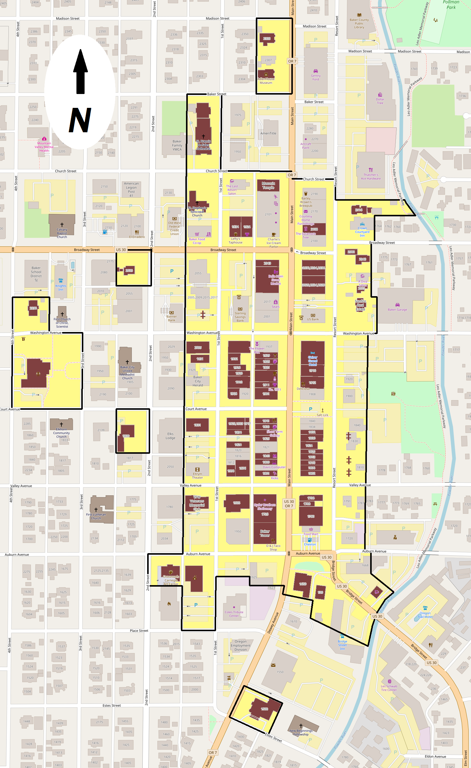 Map showing the boundaries of the Baker Historic District in Baker City, Oregon, United States. The historic district is listed on the U.S. National Register of Historic Places. Black boundary/yellow area: Baker Historic District boundaries Maroon shading: Buildings listed as contributing resources in the historic district Maroon double dagger: Marks the former locations of buildings that were identified as a contributing resources at the time of listing on the National Register, but which had been either demolished or relocated by June 2013 (date of Google Earth aerial imagery) Gray shading: Buildings not contributing in the historic district